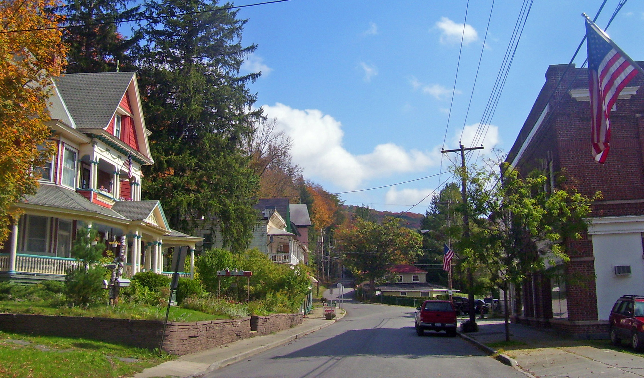 View east down Main Street to Halcott Road junction in downtown Fleischmanns, NY, USA